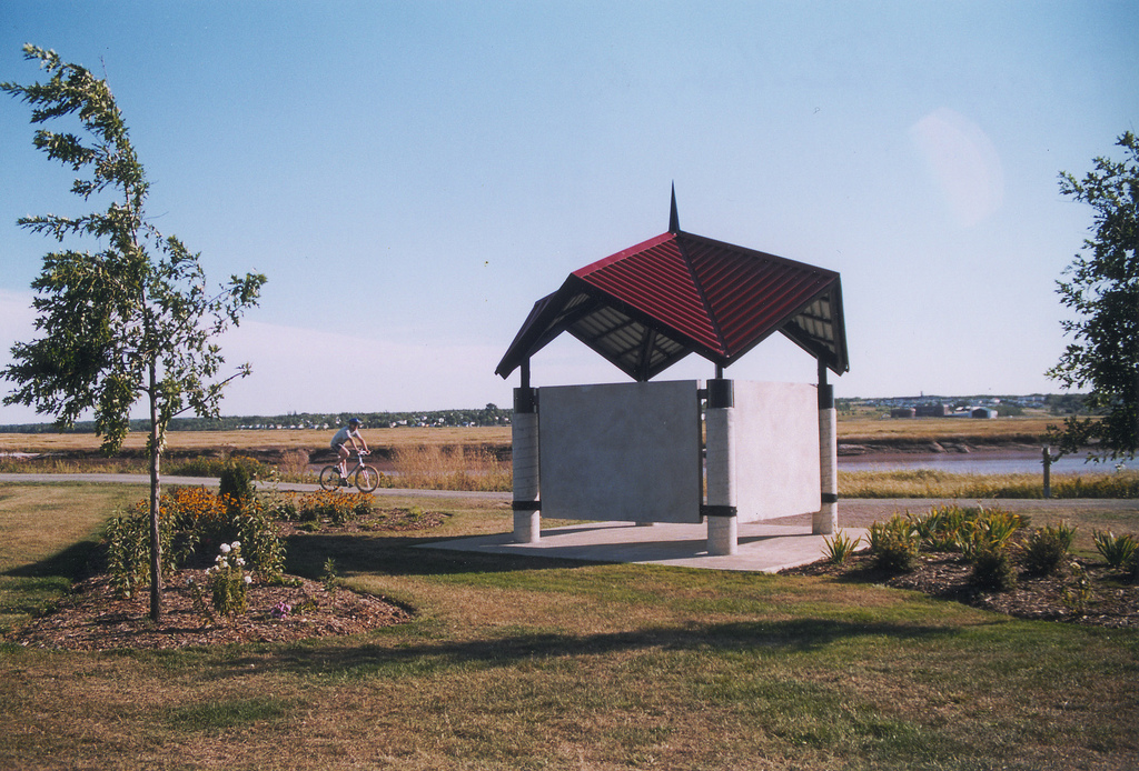 Riverfront Trail -On Champlain Street near the Trans Canada Trail Bridge. Dieppe [1] References ↑